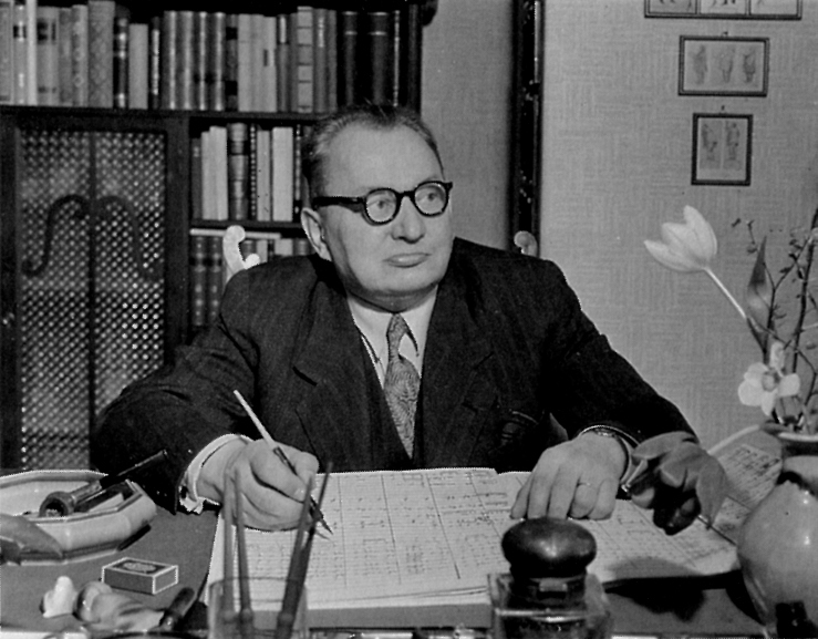 Photograph of the Finnish composer Aarre Merikanto (1893–1958) in 1950s.